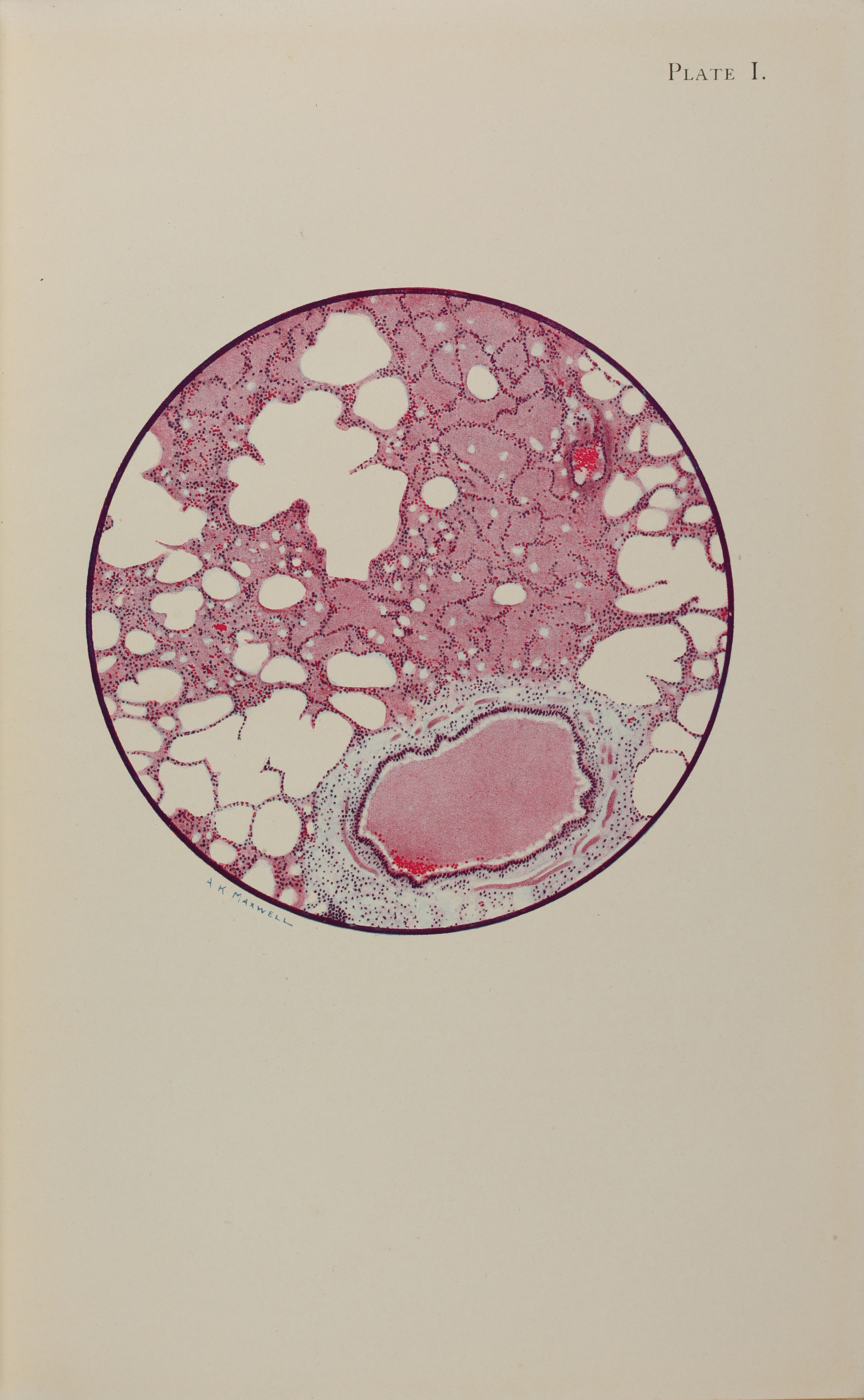 Plate I from An Atlas of Gas Poisoning by the American Red Cross and Medical Research Committee (American Red Cross, 1918). Plate title: "Microscopic section of human lung from phosgene shell poisoning. Death at the nineteenth hour after gassing." Text begins: "The piece of lung shown is almost entirely useless for aeration of the blood. Most of the pulmonary alveoli are filled with oedema fluid, and the walls of the air-sacs are burst asunder in many places..." The American Red Cross published this guide for the American Expeditionary Force in World War I, sometimes called the "chemists’ war." The chromolithograph plates of characteristic injuries were intended to help inexperienced officers identify the type of gas used in attacks.